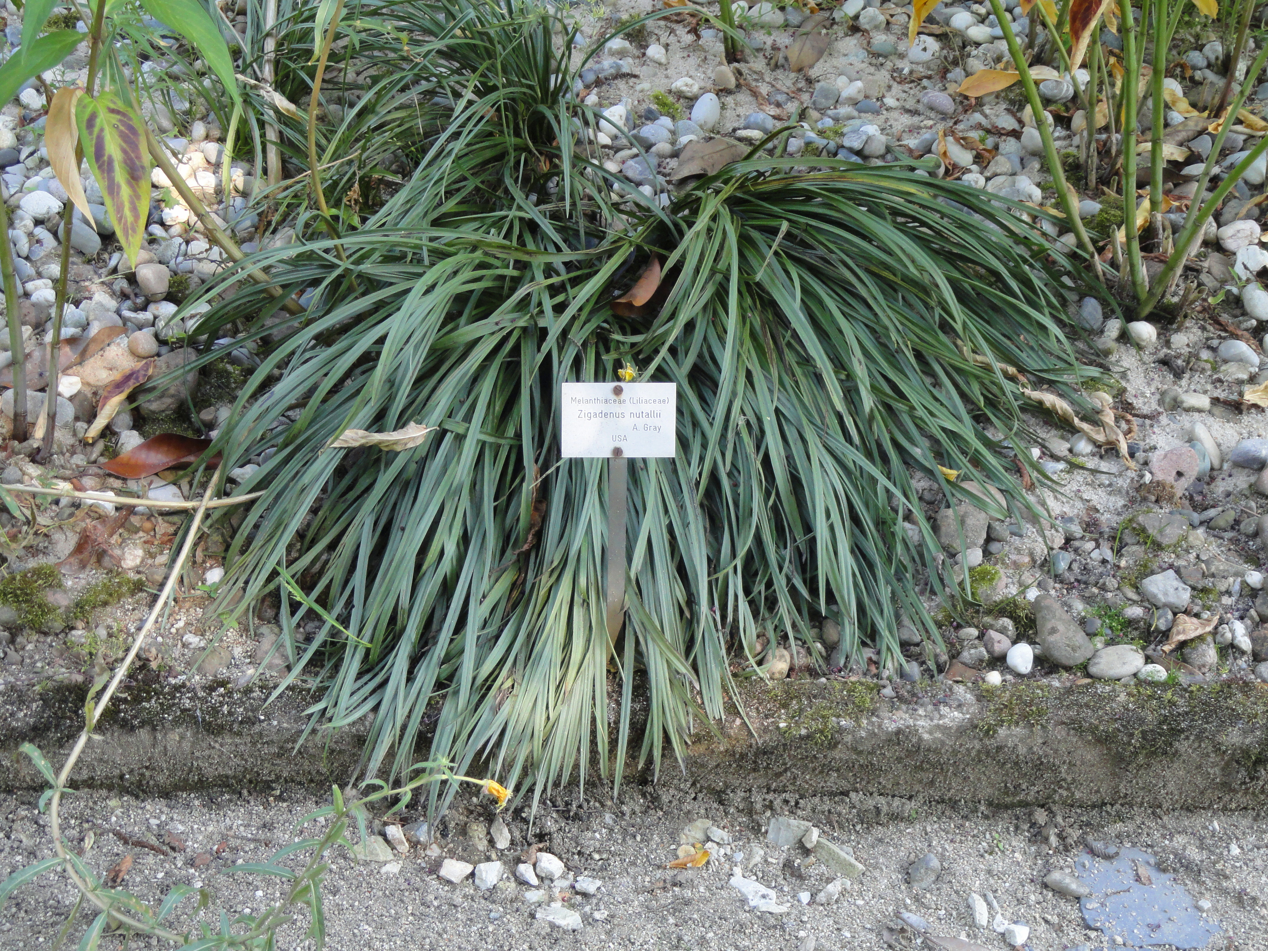 Botanical specimen in the Botanischer Garten, Frankfurt am Main, Germany.